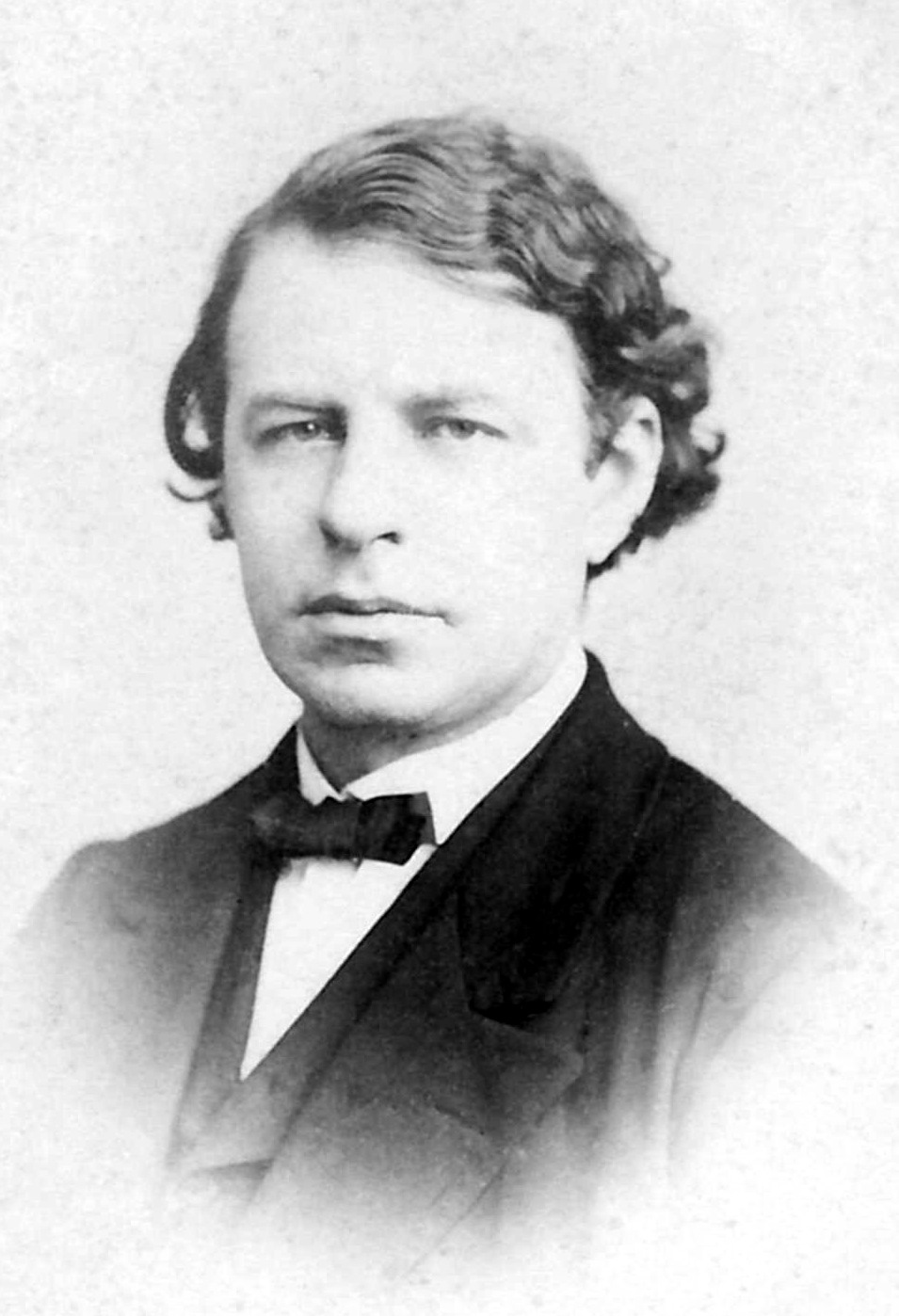 Joseph Joachim died in 1908. This image, created by Reutlinger in Paris, is out of copyright. It is in my personal collection. Zarafa.